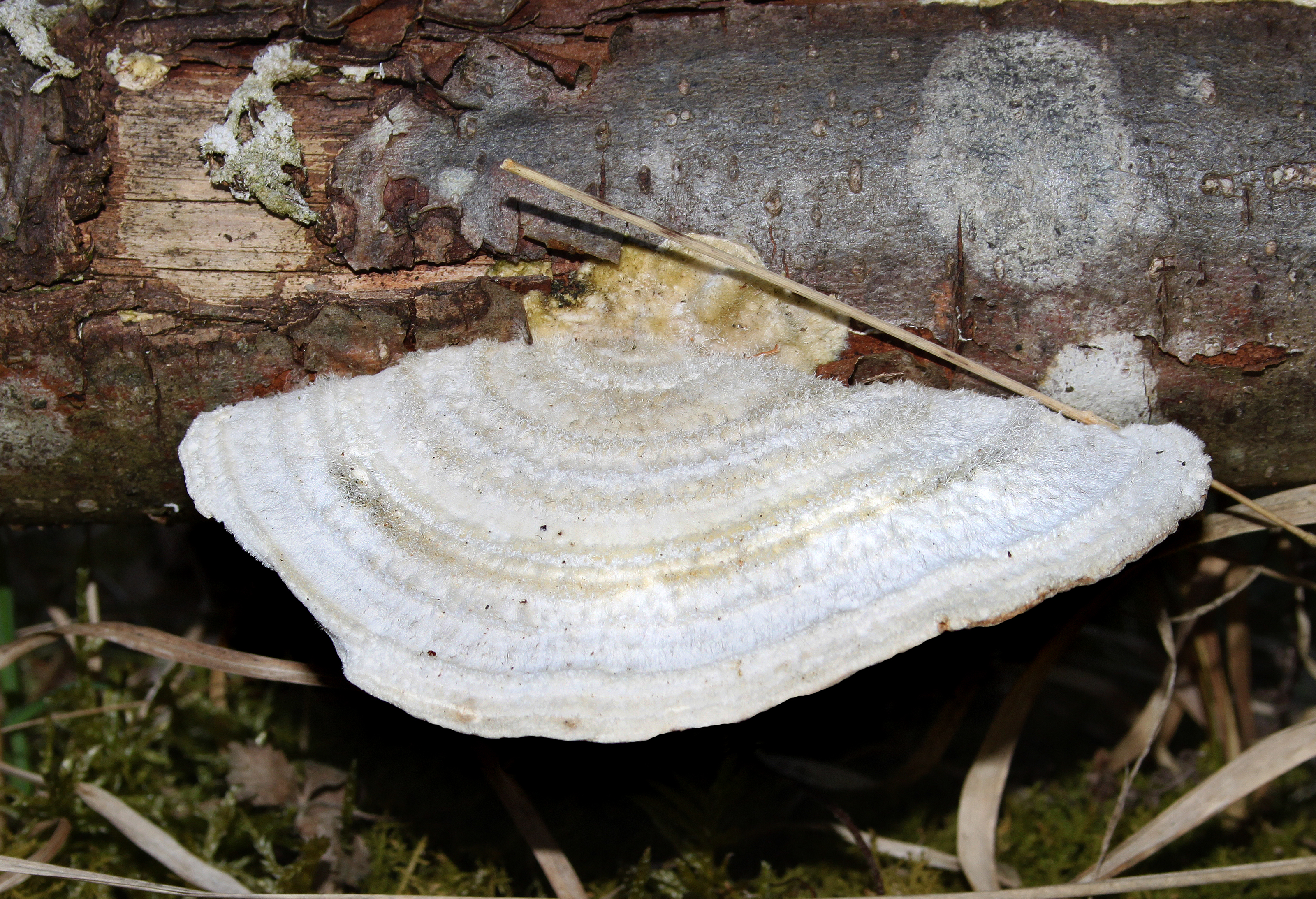 Trametes pubescens, Family: Polyporaceae, Location: Southern Germany, Ulm, Ringingen